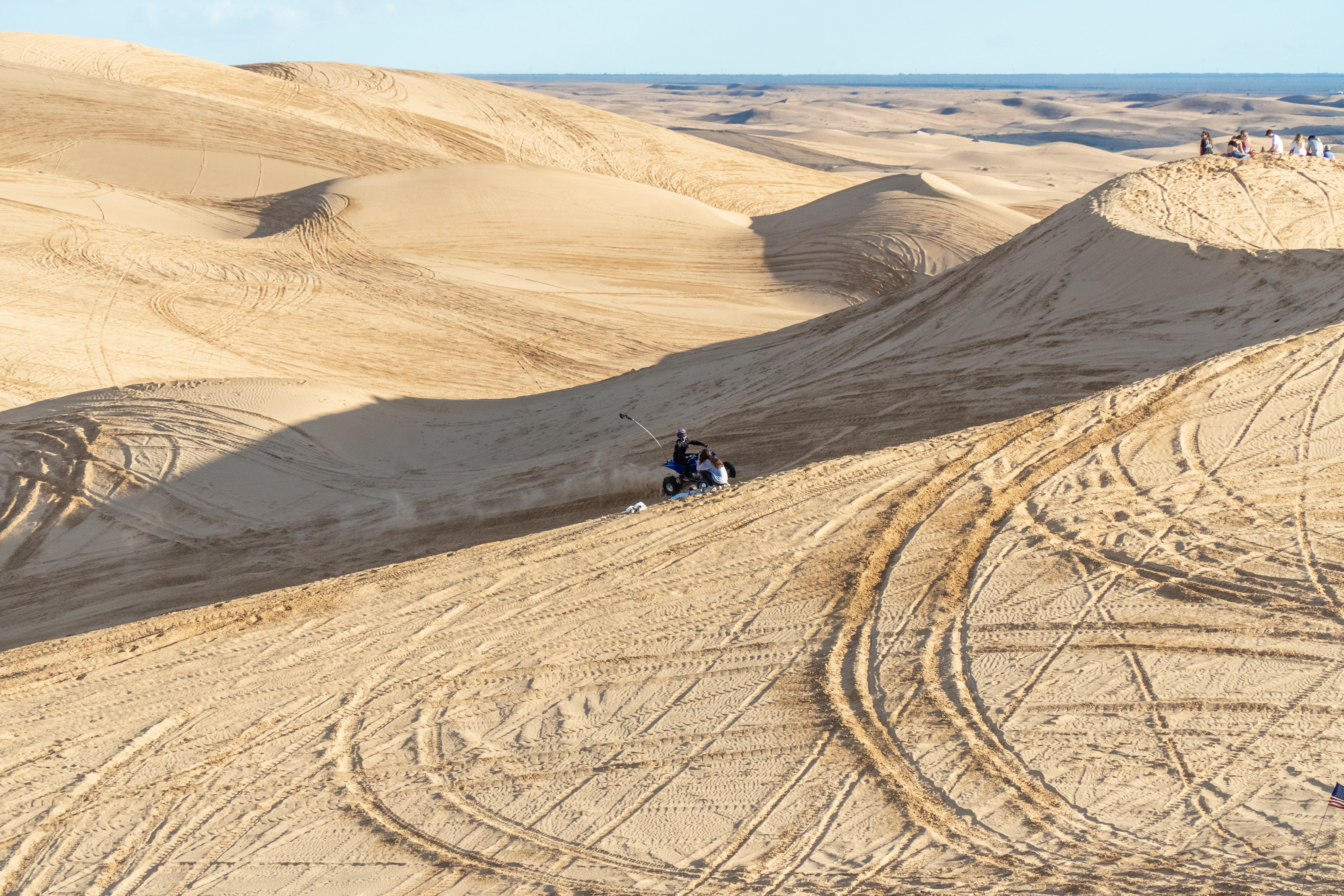 Lone ATV in Algodones Dunes